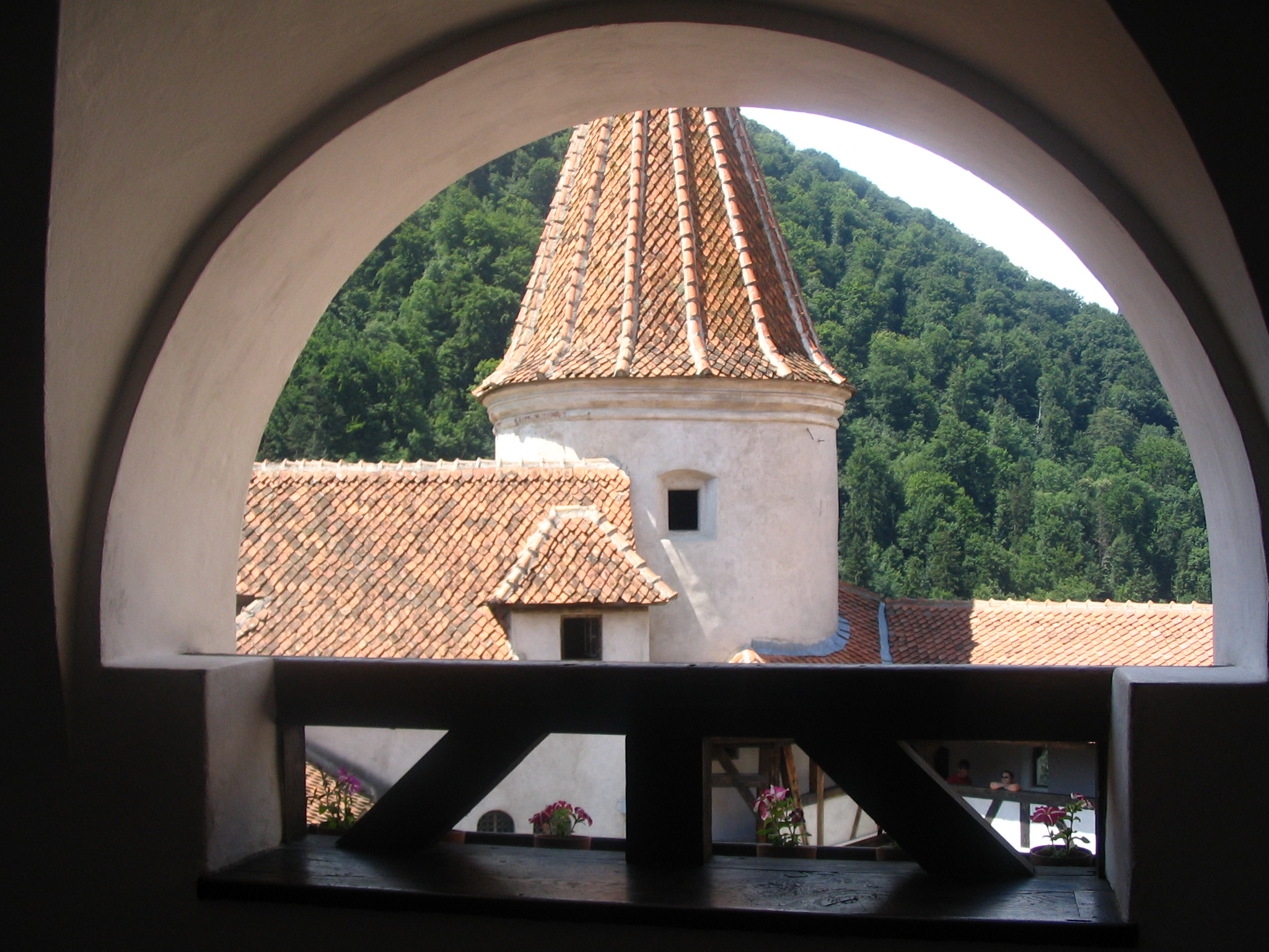 Picture taken from a walkway within the Bran Castle. The Bran Castle, located in Romania, is commonly associated with the fictional Count Dracula.